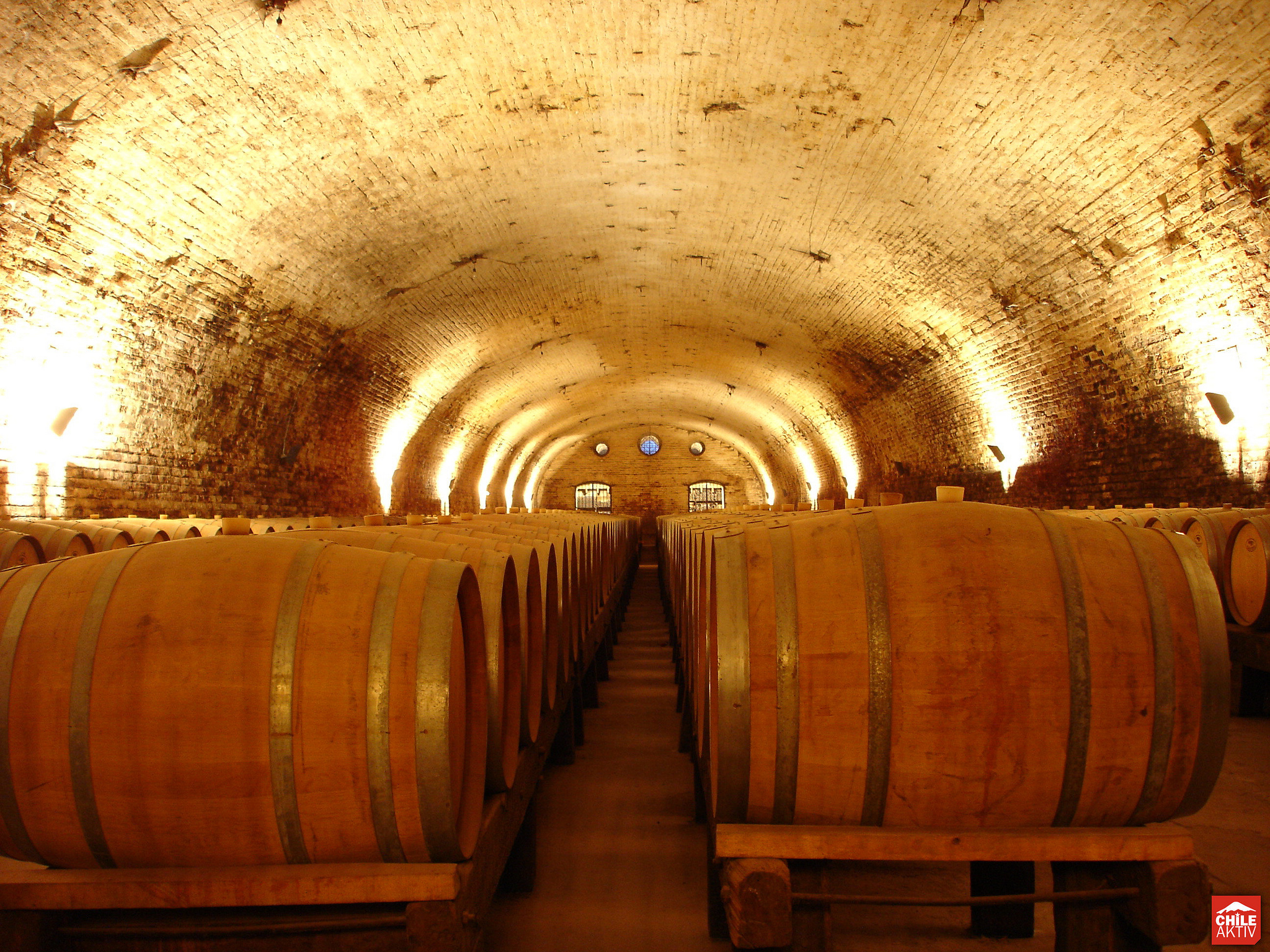 Check out for more